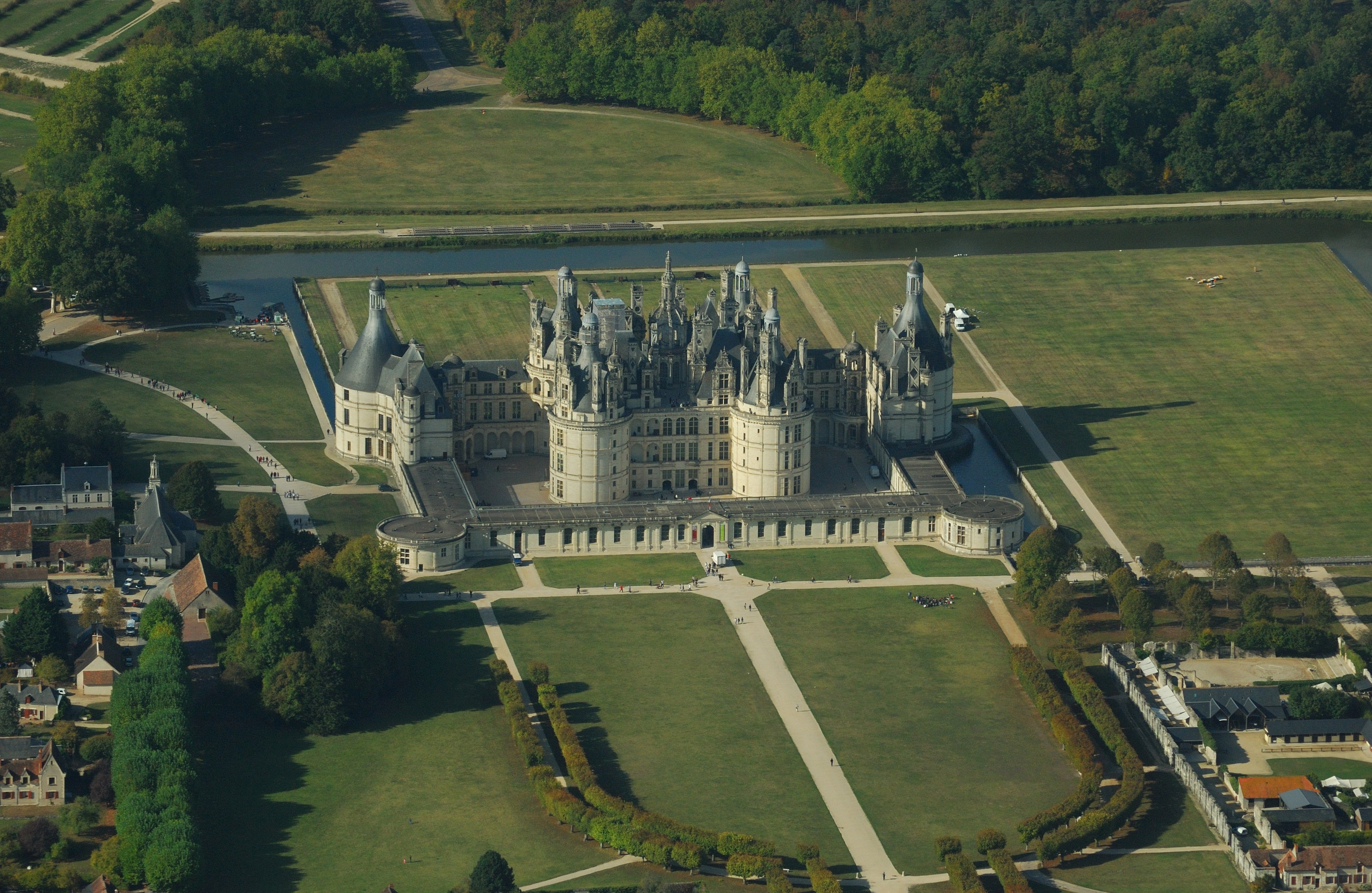 Aerial view of Chambord castle (Loir-et-Cher department, France). Nikon D60 f=116mm f/8 at 1/1000s ISO 400. Processed using Nikon ViewNX 1.3.0 and GIMP 2.6.6.